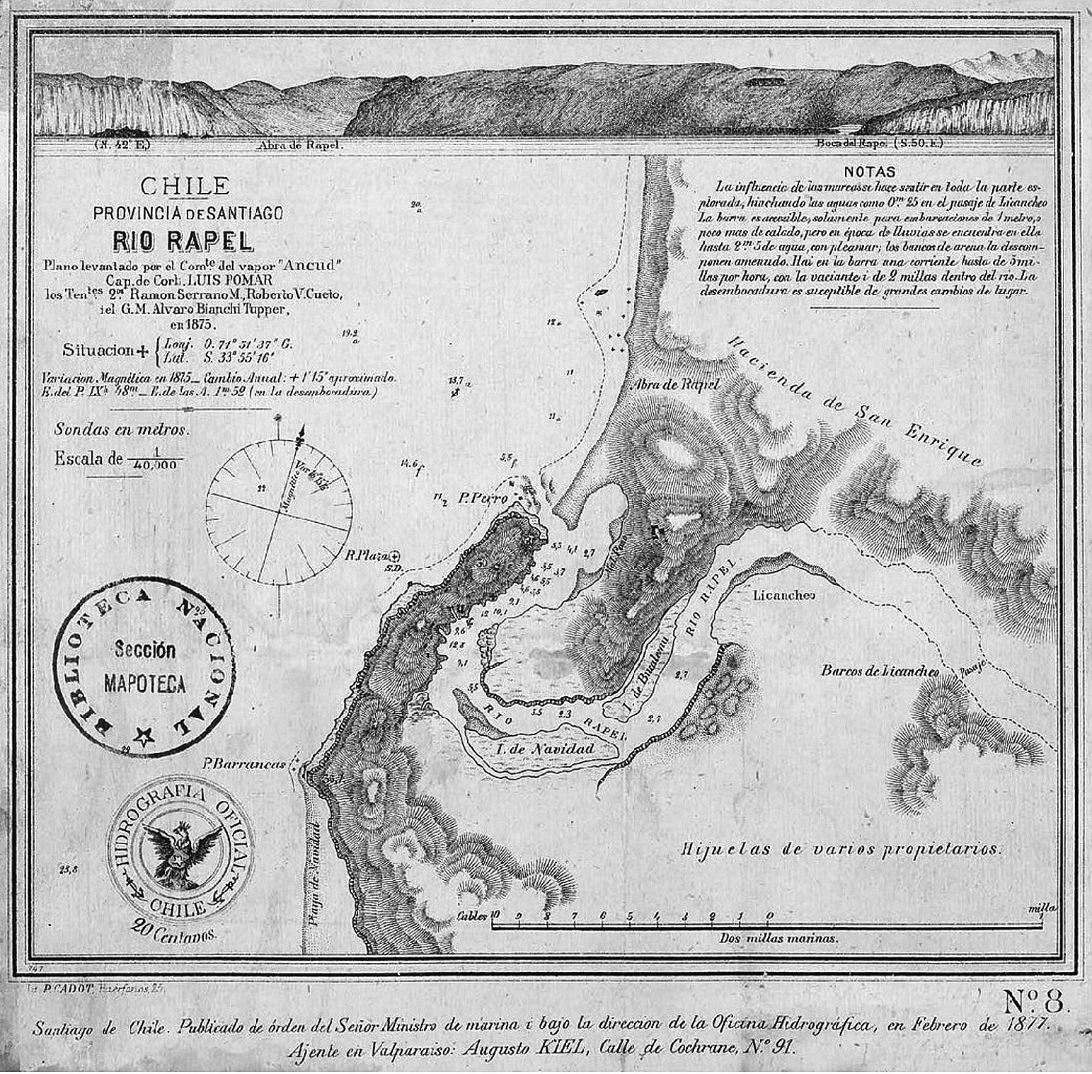 Rapel River